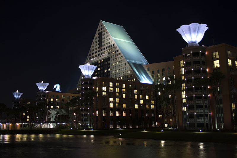 This was taken from the bridge connecting the Boardwalk to the Swan and Dolphin area. (WDW Dolphin Hotel)